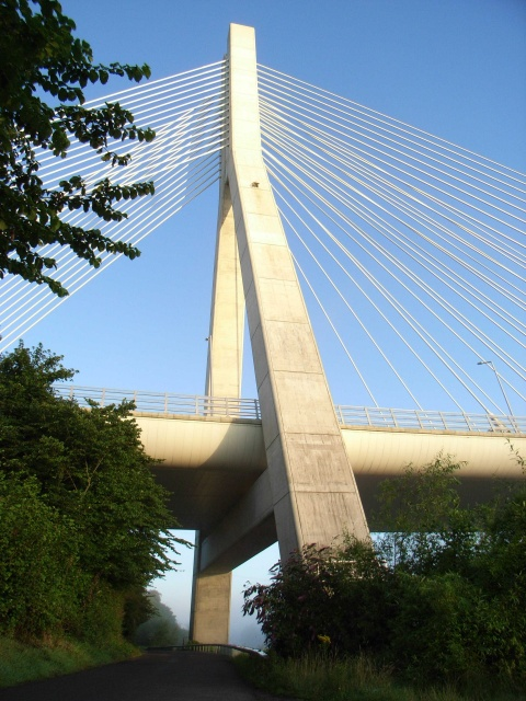 The M1 Boyne Bridge, near Drogheda, Co. Louth From downstream (east)